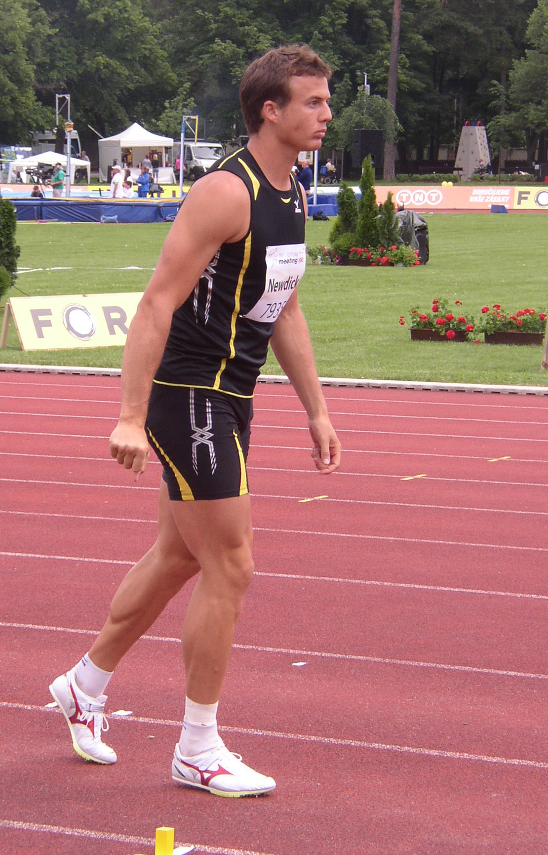 Athlete Brent Newdick of New Zealand prepares for his attempt in long jump during men's decathlon at 4th edition of the TNT - Fortuna Meeting (IAAF World Combined Events Challenge Meeting, Sletiště Stadium, Kladno, Czech Republic, 15 June 2010, 13:06). Newdick improved his personal best in decathlon from 7935 to 8091 points at this event.